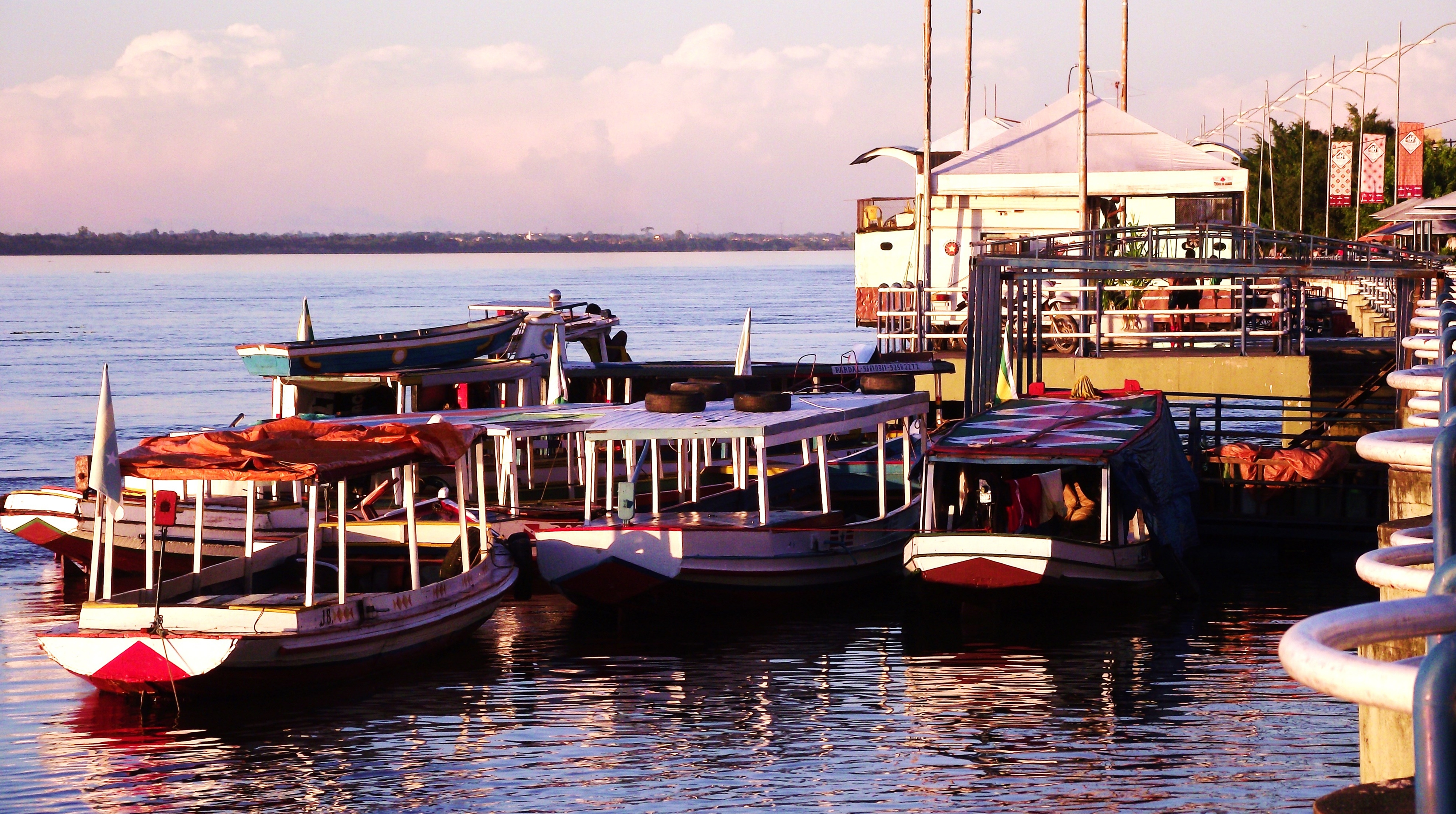 Typical boats of the rivers in the Brazilian Amazon , here in Orla Sebastian Miranda , Tocantins river in Maraba Pará, Brazil .